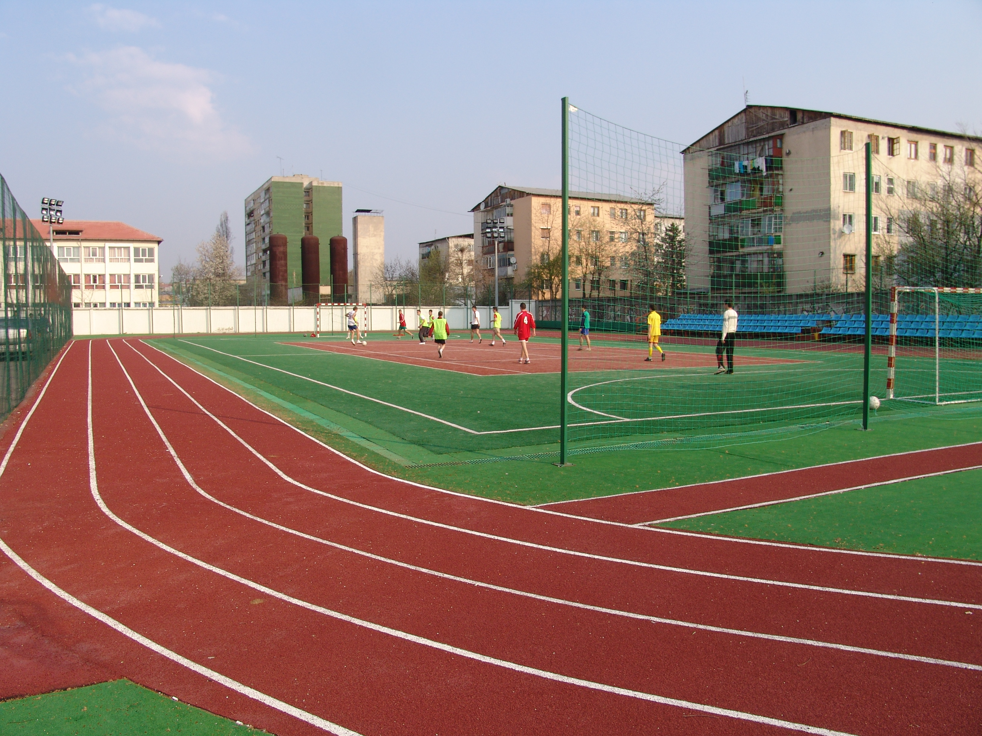 Baza Sportiva - Universitatea Valahia din Târgoviște (UVT)